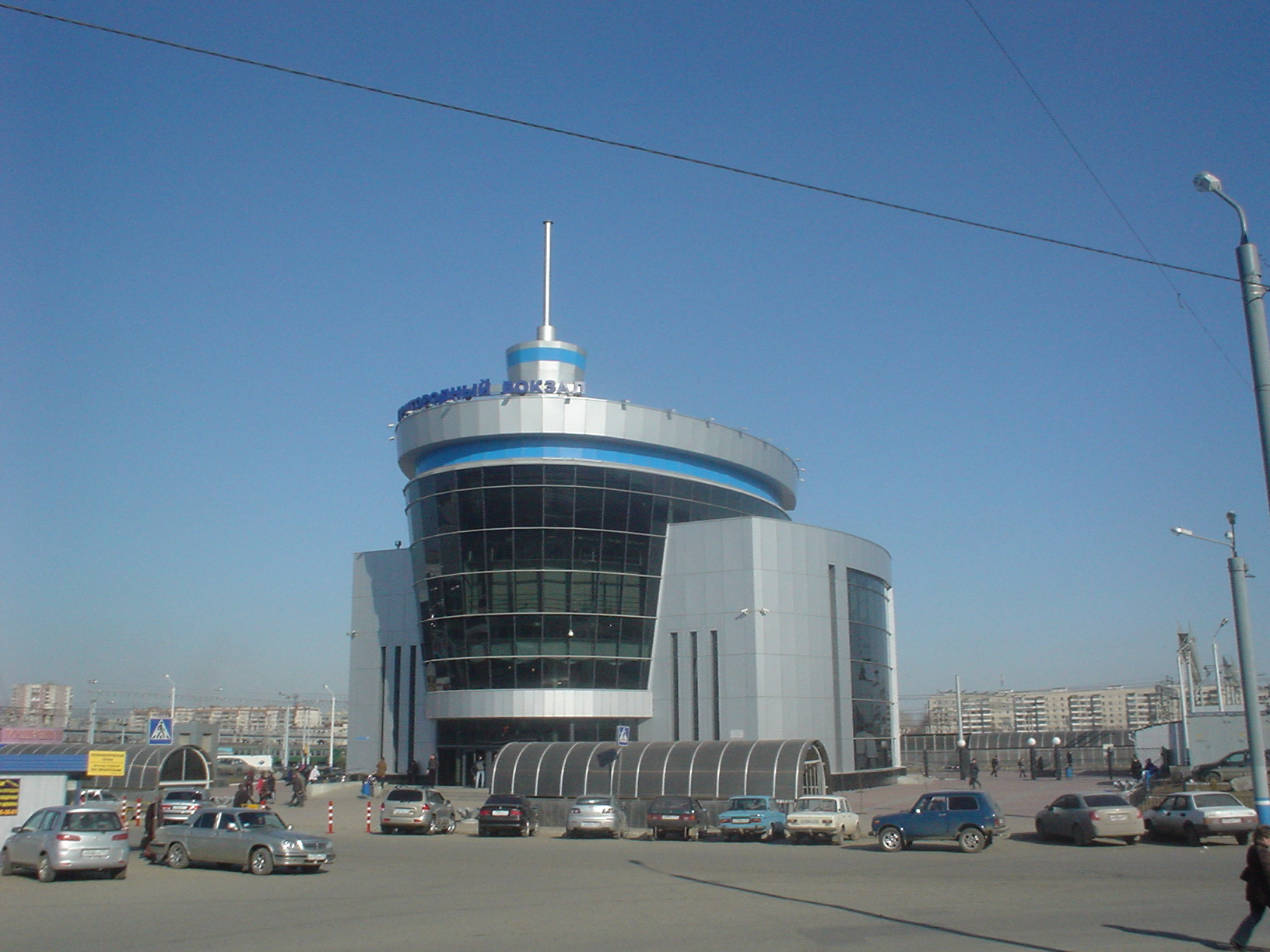 Prigorodny vokzal Chelyabinsk, Russia